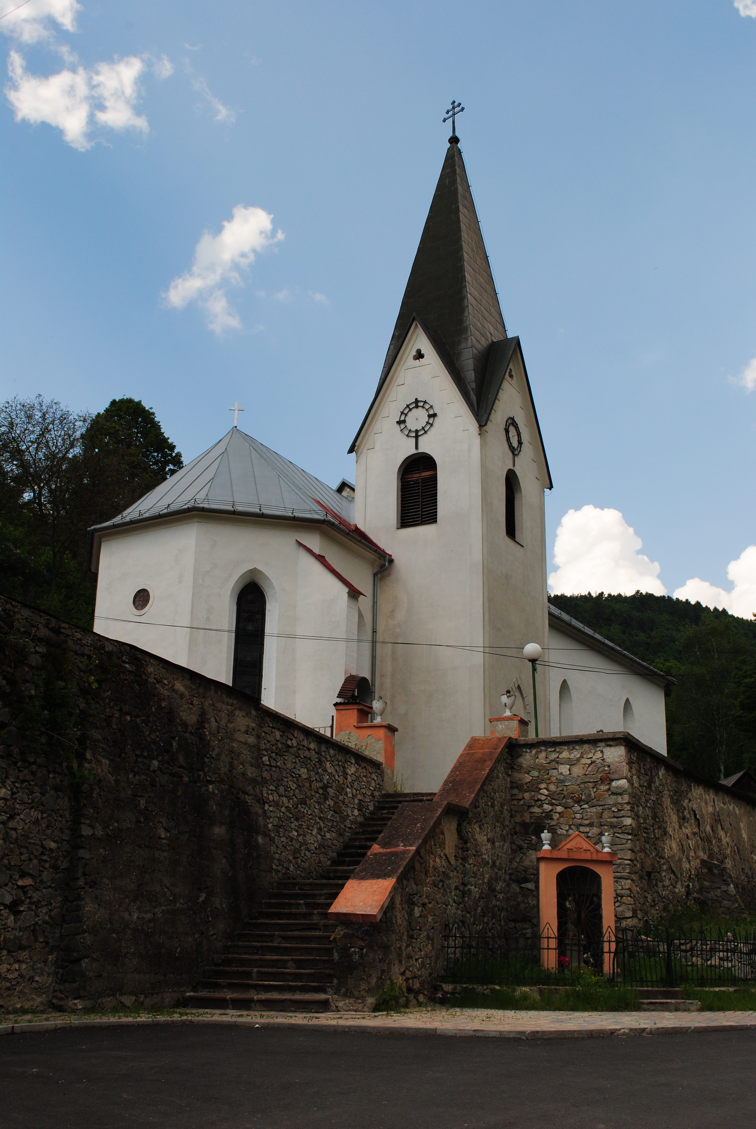 Hodruša - Roman-Catholic church of St Nicholas, 2011